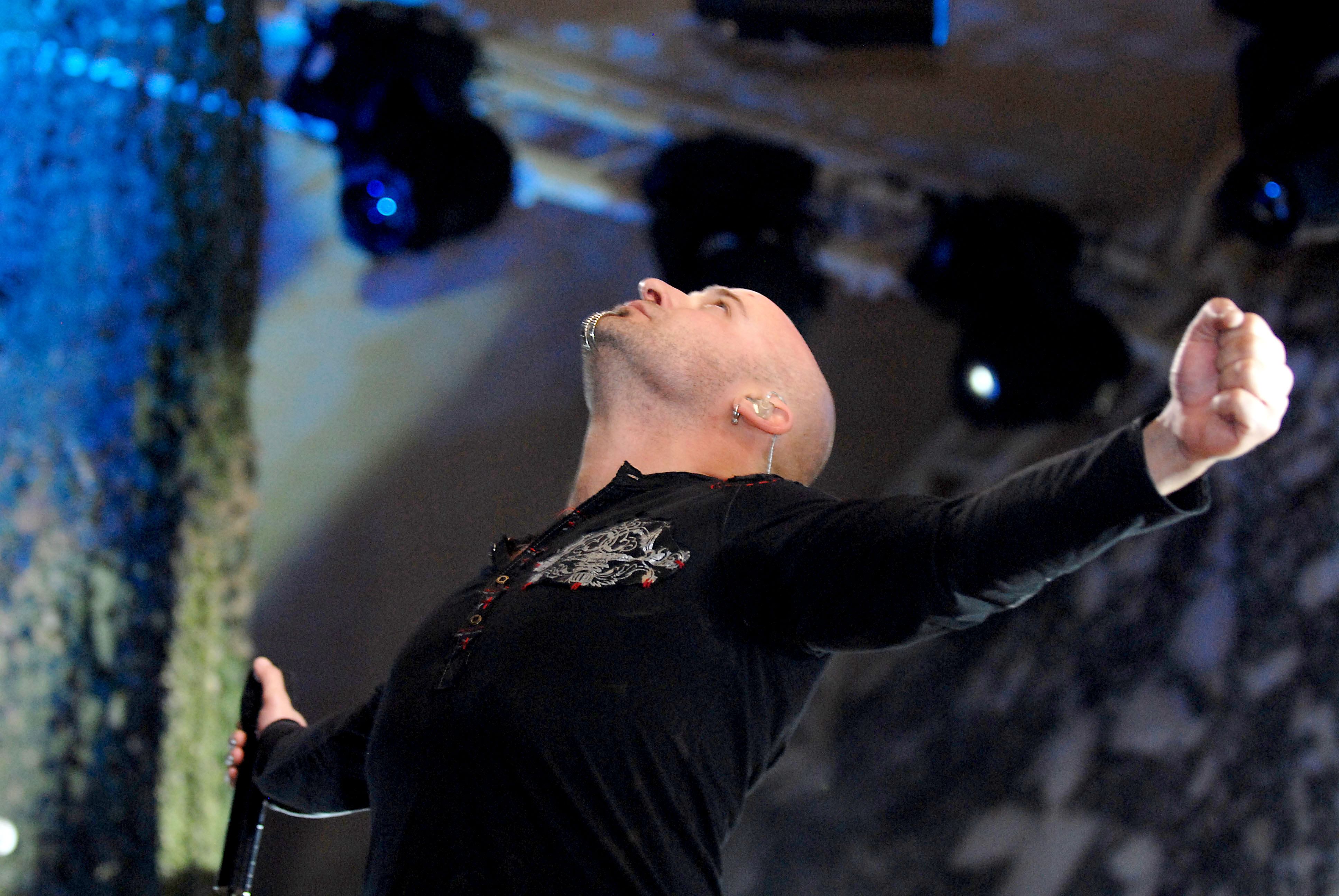 David Draiman, vocalist for the band Disturbed, sings to a crowd of about 5,000 troops at Camp Buehring, Kuwait, on March 10, 2008. MySpace, the social networking Web site presented a concert for the troops with the cooperation of Armed Forces Entertainment and the Defense Department's "America Supports You" program.